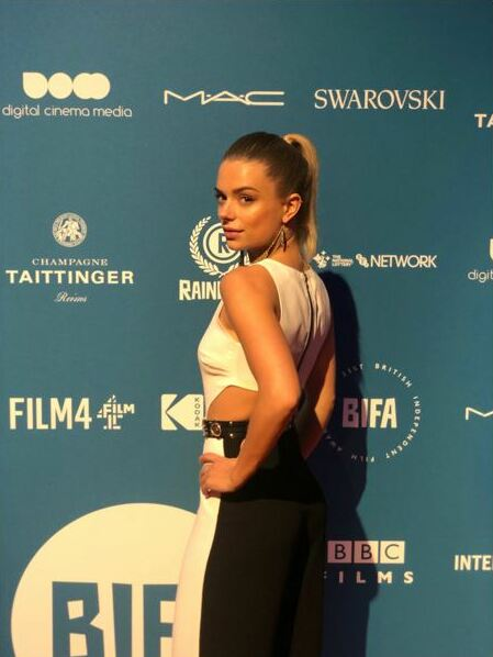 BIFA Film Festival London